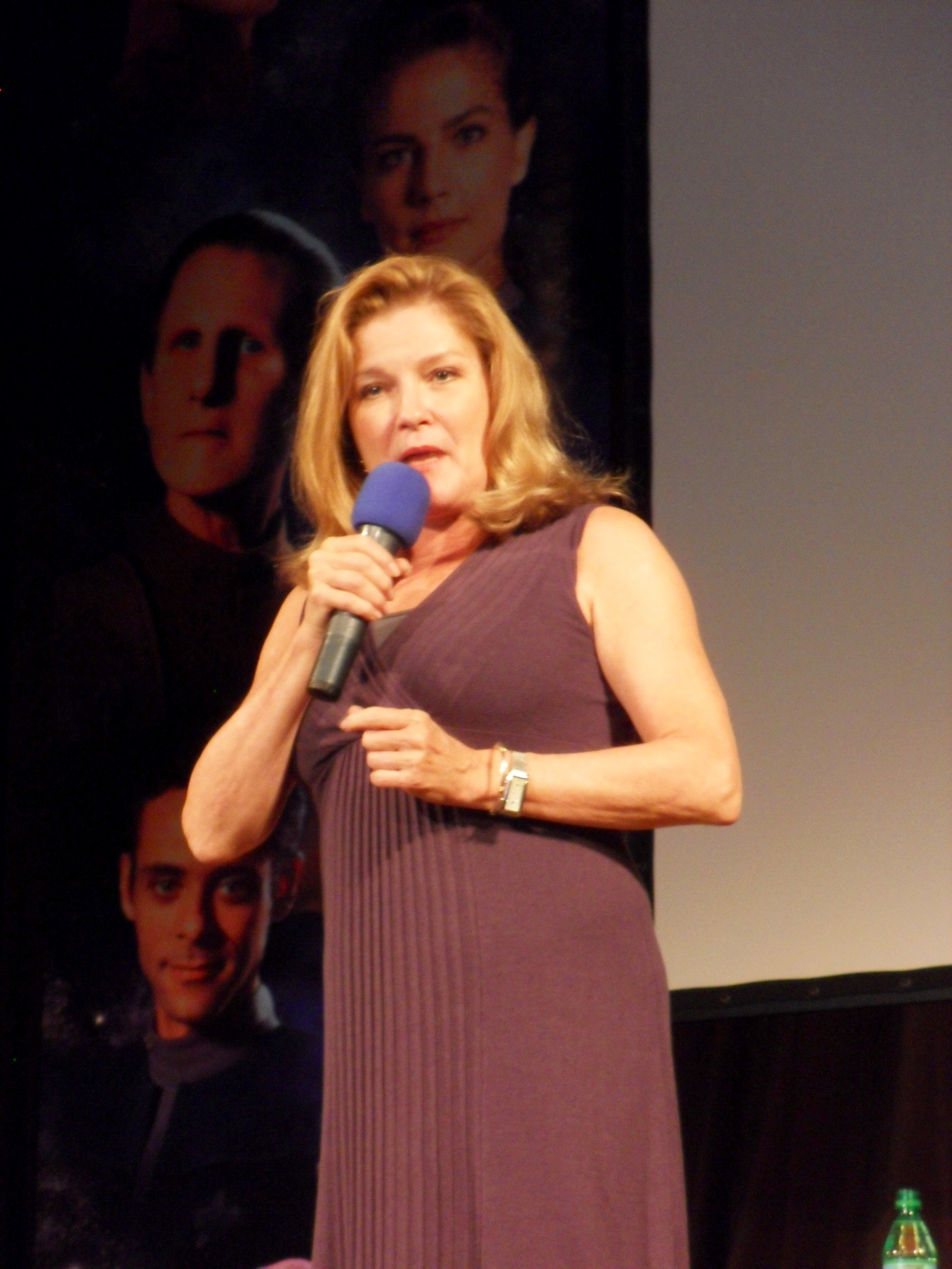 American actress Kate Mulgrew at "Kate v Praze" (Kate in Prague) con, Prague, Czech Republic